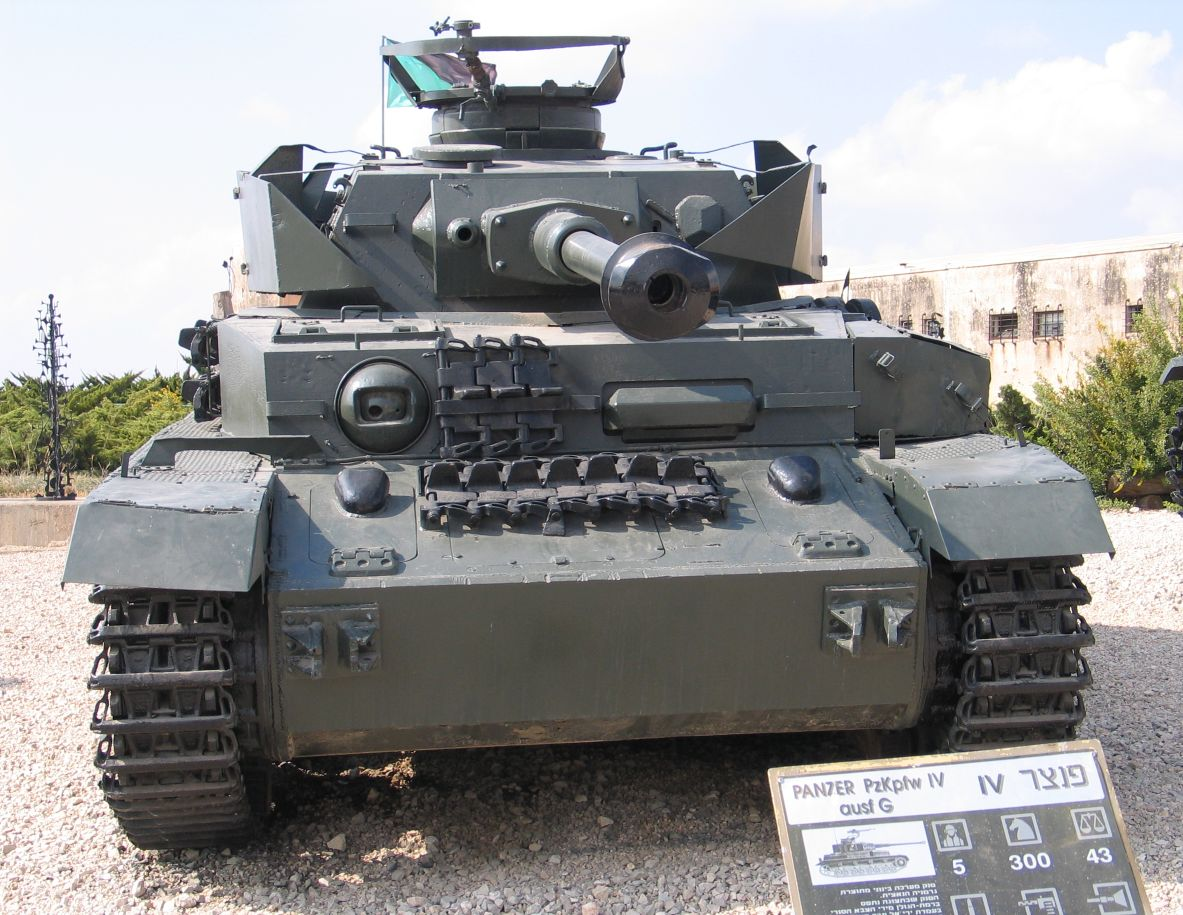 Description: 'PzKpfw IV J, captured from the Syrian Army in the Six Day War, in Yad la-Shiryon Museum, Israel. 2005. Source: Photo by me, User:Bukvoed.